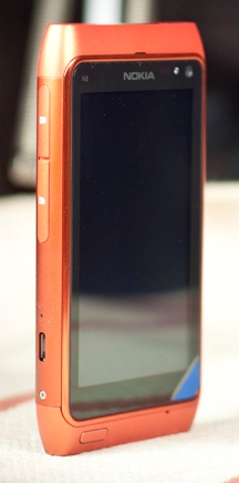 Nokia N8